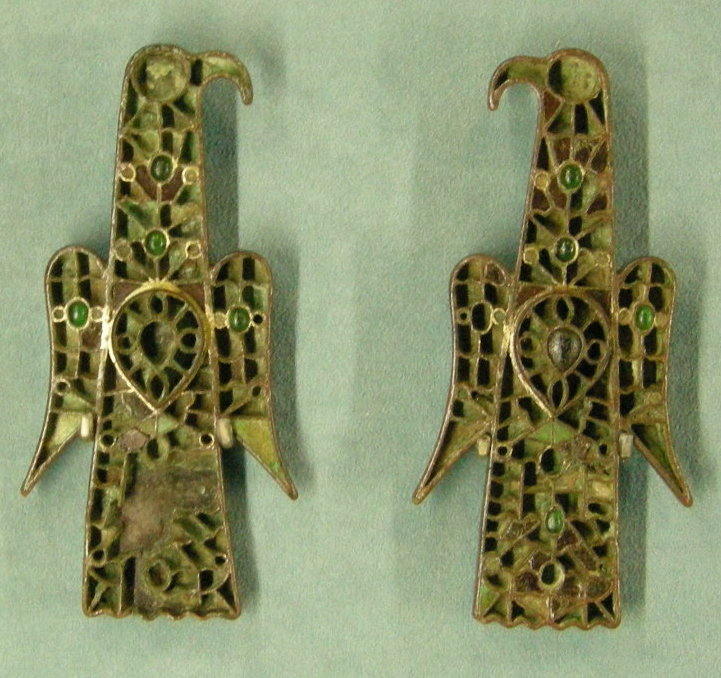 Pair of eagle-shaped Visigothic fibulae.